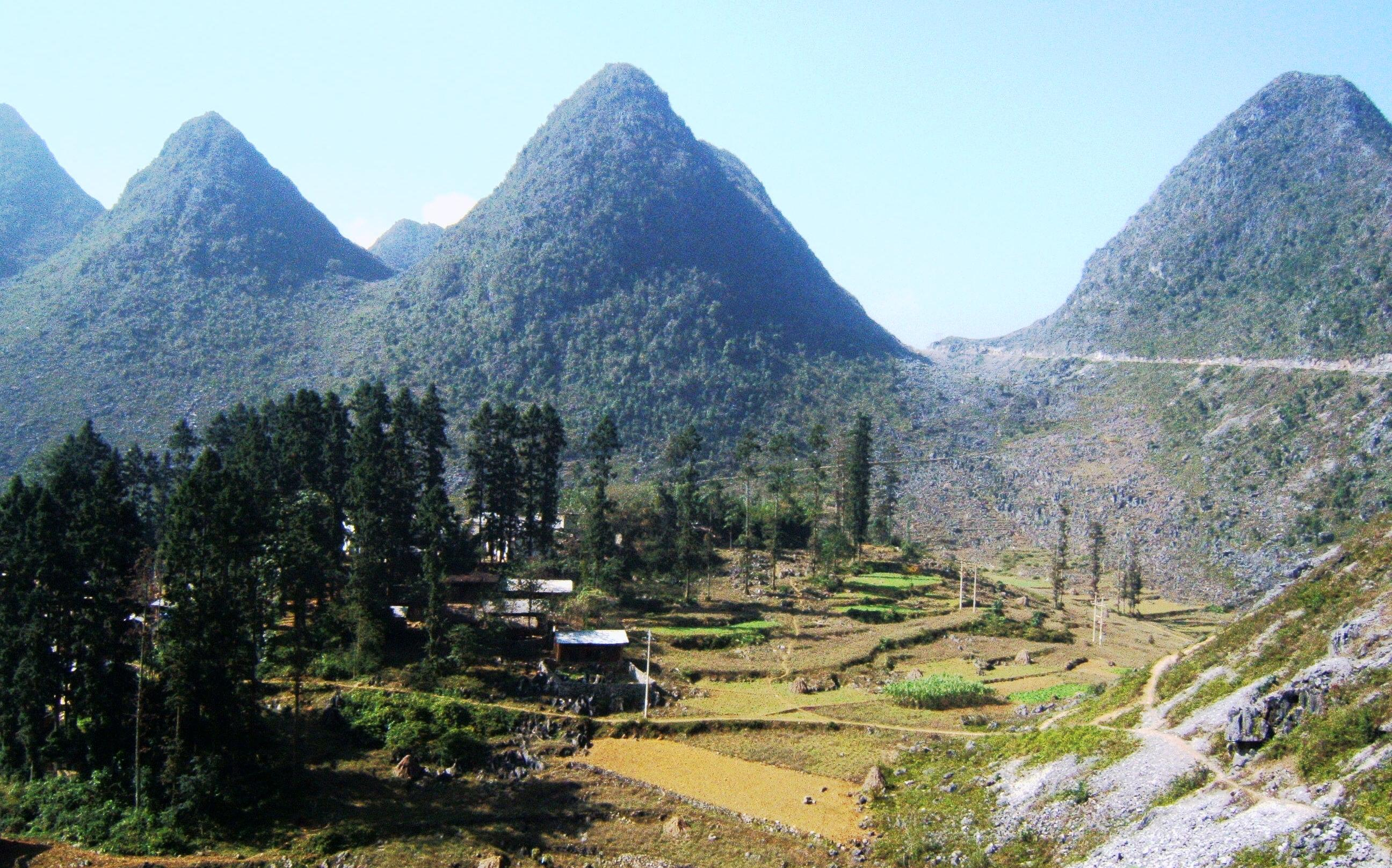 Residence of Hmong Lord on the Turtle Hill in Sà Phìn commune, Hà Giang province, Vietnam. The Road 4C is on the right